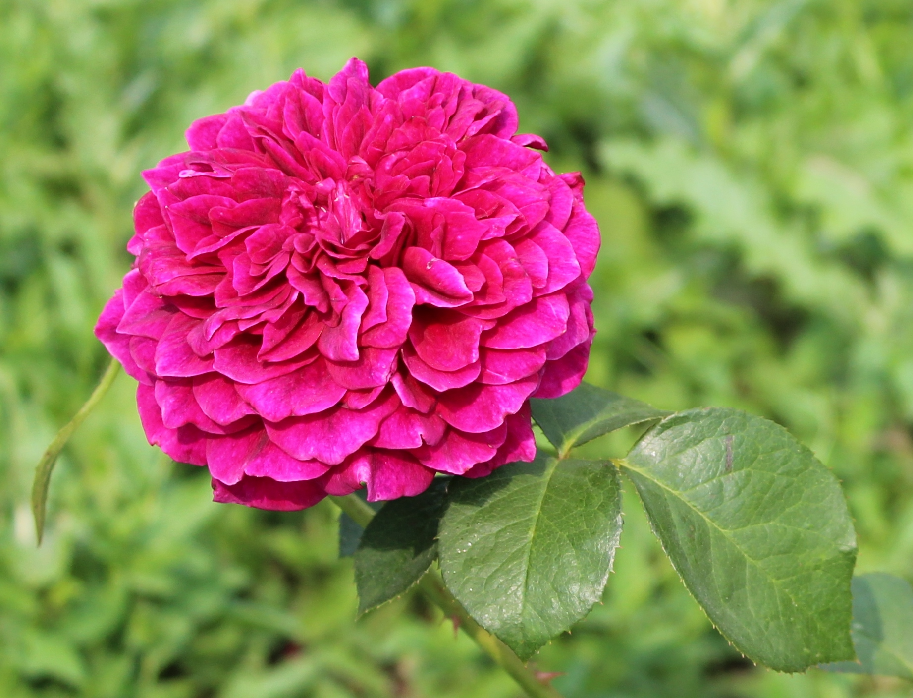 Rosa 'Prospero' in the Rosarium Wettsteinpark in Vienna. Identified by sign.